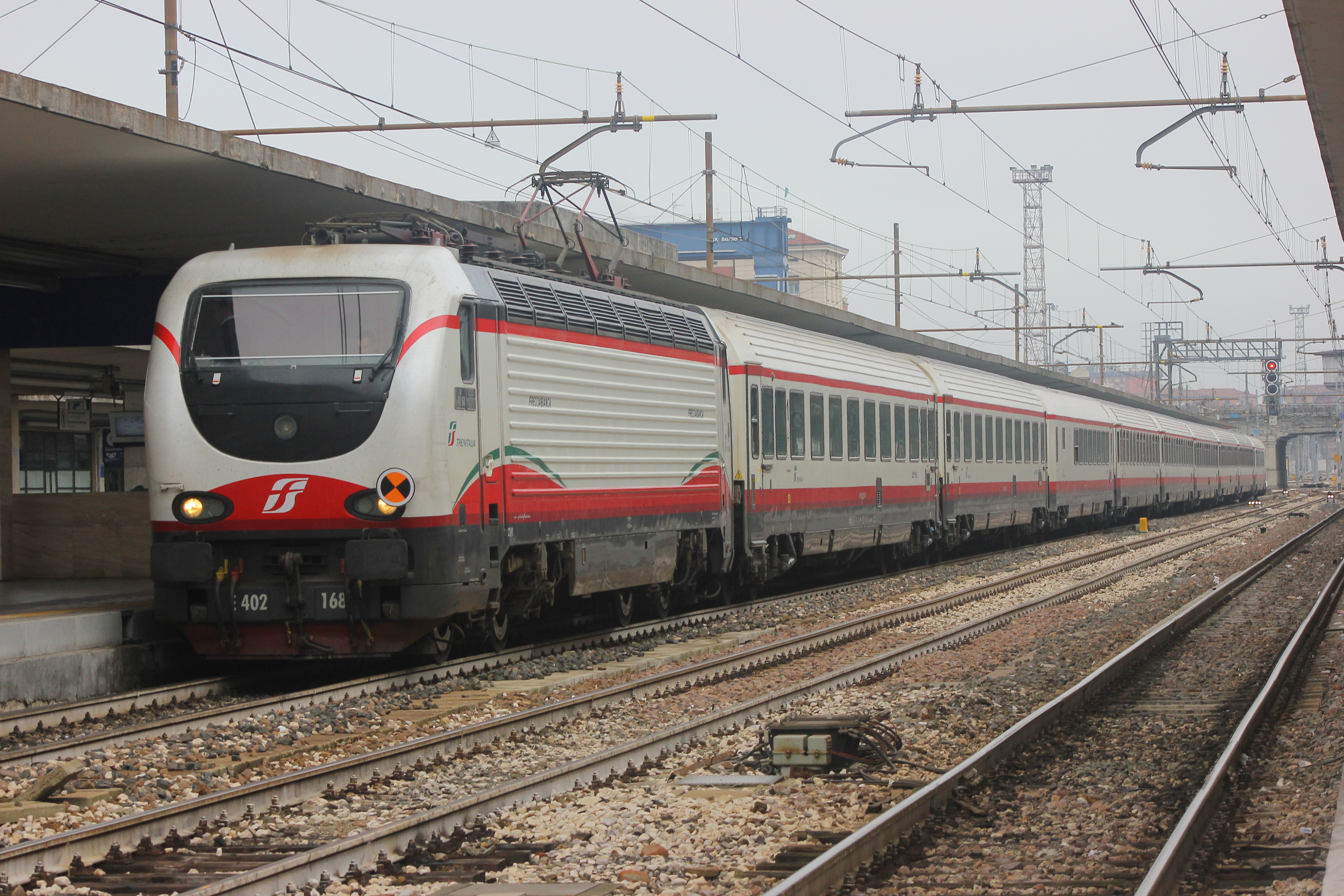 Bologna Centrale E402B Frecciabianca complete complex, whit E402.168 at head, and Pilot Z whit number npB 61 83 80-900 0 6-7 I-T I